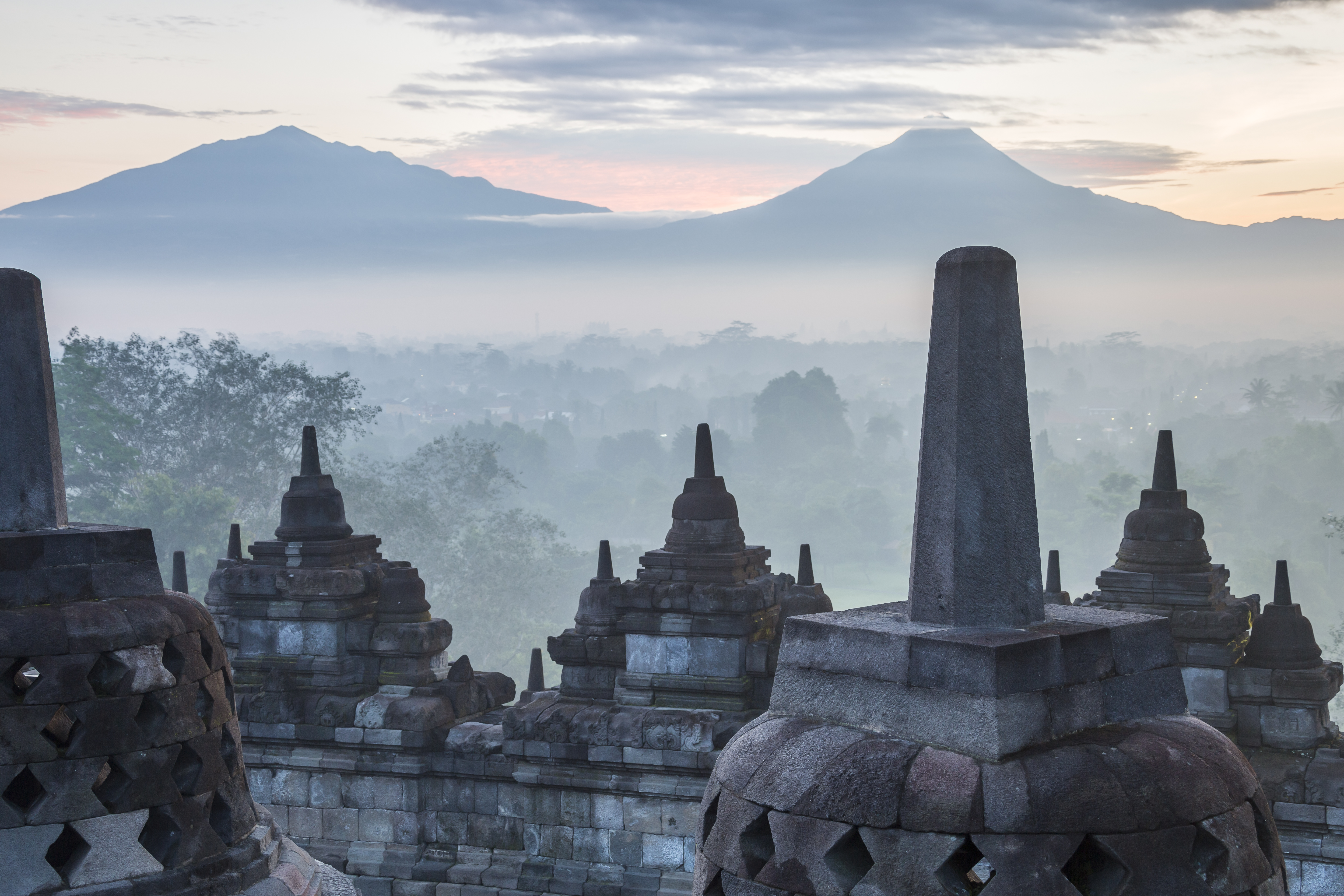 Borobudur temple Park, Indonesia: Early morning atmosphere in Borobudu Temple Park.